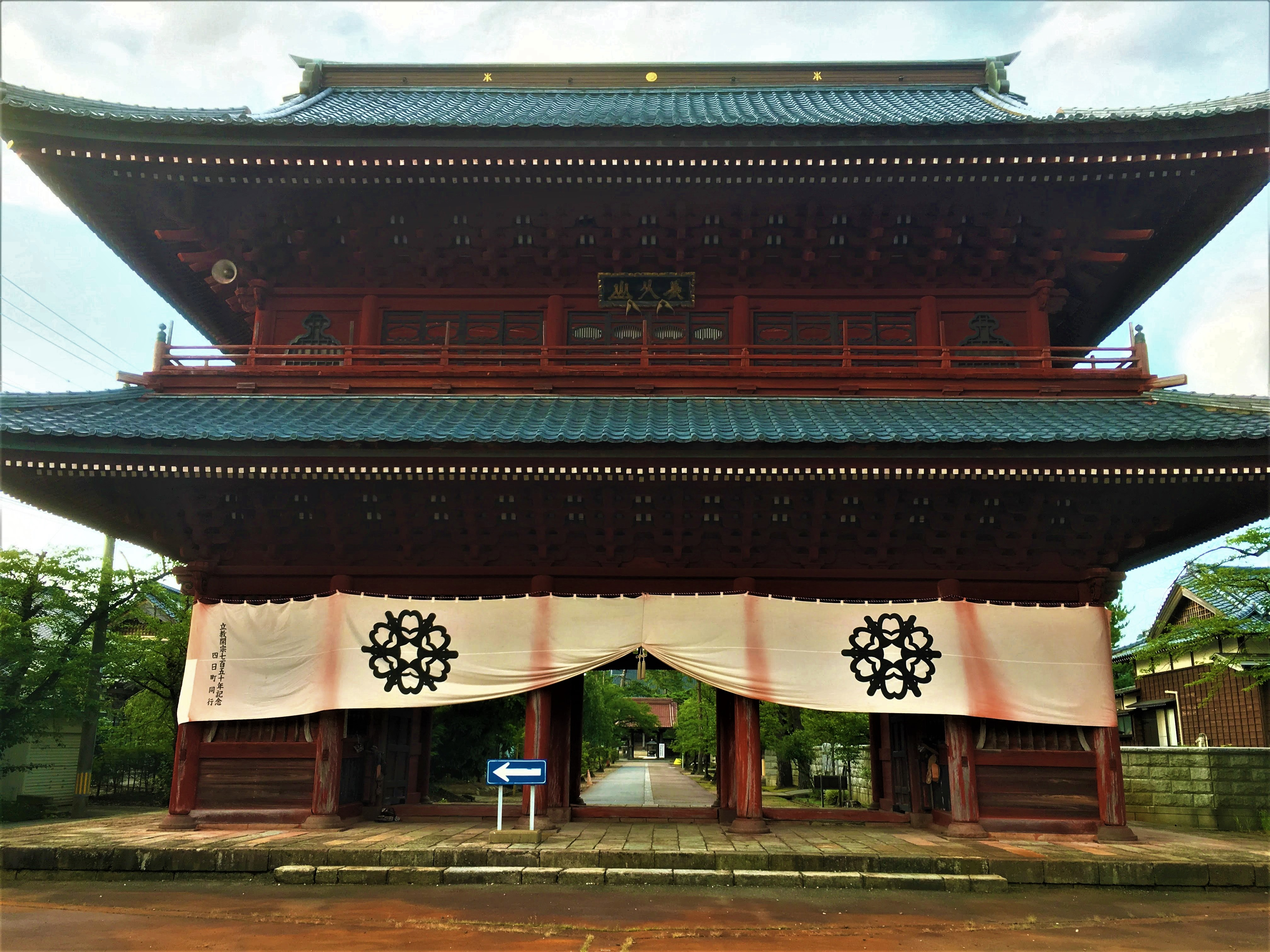 Honjoji temple main gate. Sanjo , Niigata , Japan.